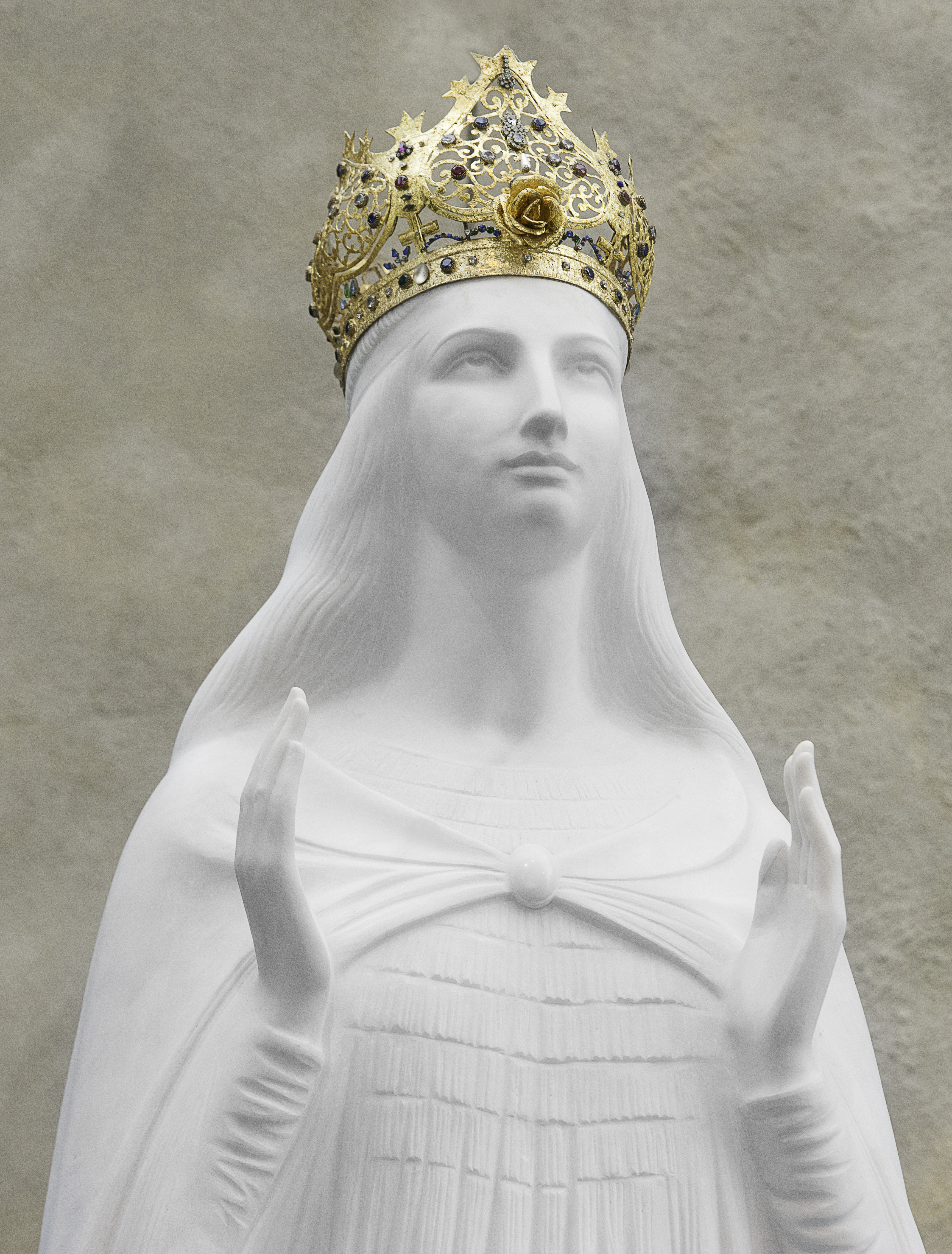 Statue of Our Lady in the Apparition Chapel, Knock Shrine